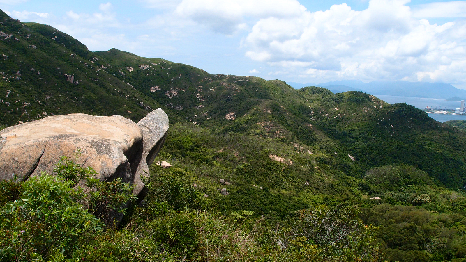 「靈龜石」